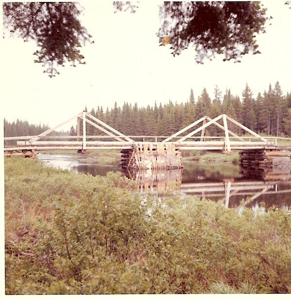 International Paper Company bridge over the Baker Branch Saint John River at Baker Lake.